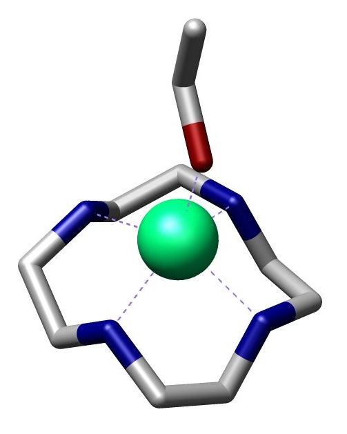 This is a picture generated from crystal structure data reported by Antje Schrodt, Anton Neubrand, and Rudi van Eldik in Inorganic Chemistry, Year 1997, Pages 4579-4584. It shows a zinc(II) coordinated to a cyclen and an ethanol . It was made by myself and is free to be used by all.